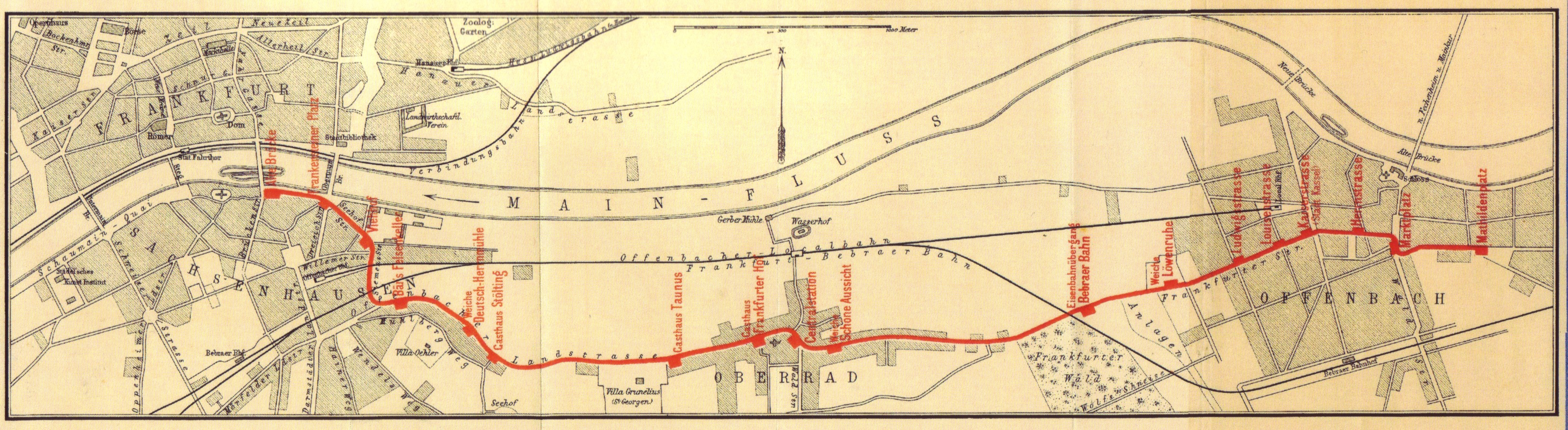 Route of the Frankfurt and Offenbach Tramway Society (FOTG), one of the first electric tramway lines in the world and the first commercial electrical tramway in Germany and also the first tramway in Germany using a overhead line. The line was opened at February 18th, 1884 to Frankfurt-Oberrad and at April 10th, 1884 further to Offenbach.